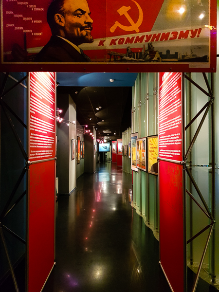 Выставка «А мы выбираем космос!» в Музее космонавтики на ВДНХ, посвящённая советским агитационным плакатам на тему освоения космоса; 25.01.2018 — 27.05.2018.